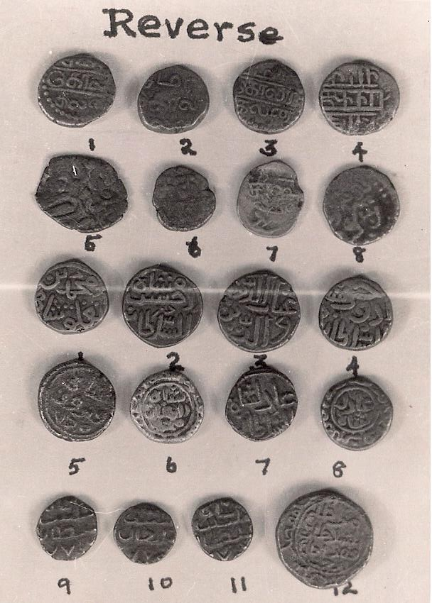 Reverse view of the coins.